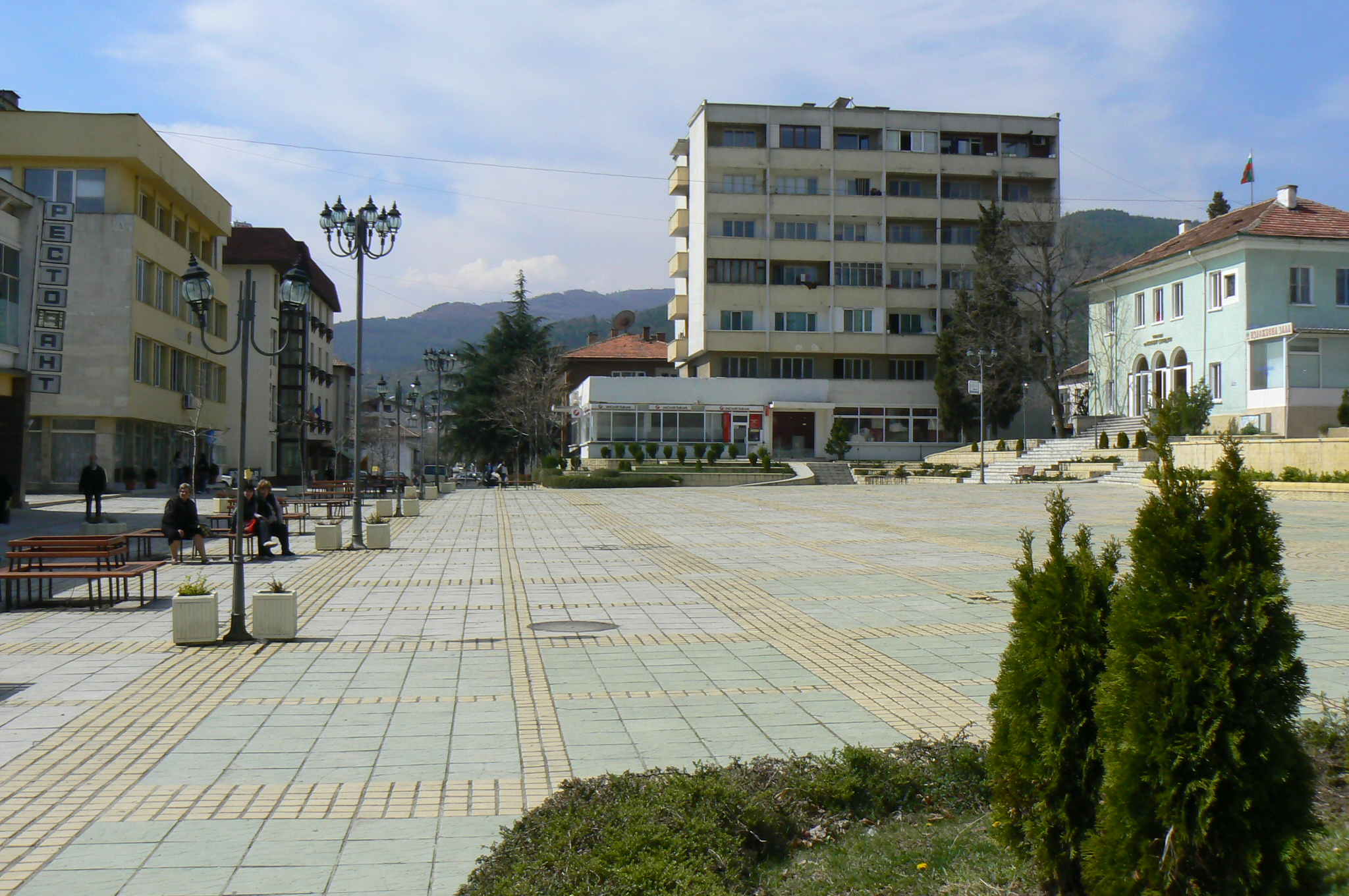 The central square of the town of Simitli, Bulgaria